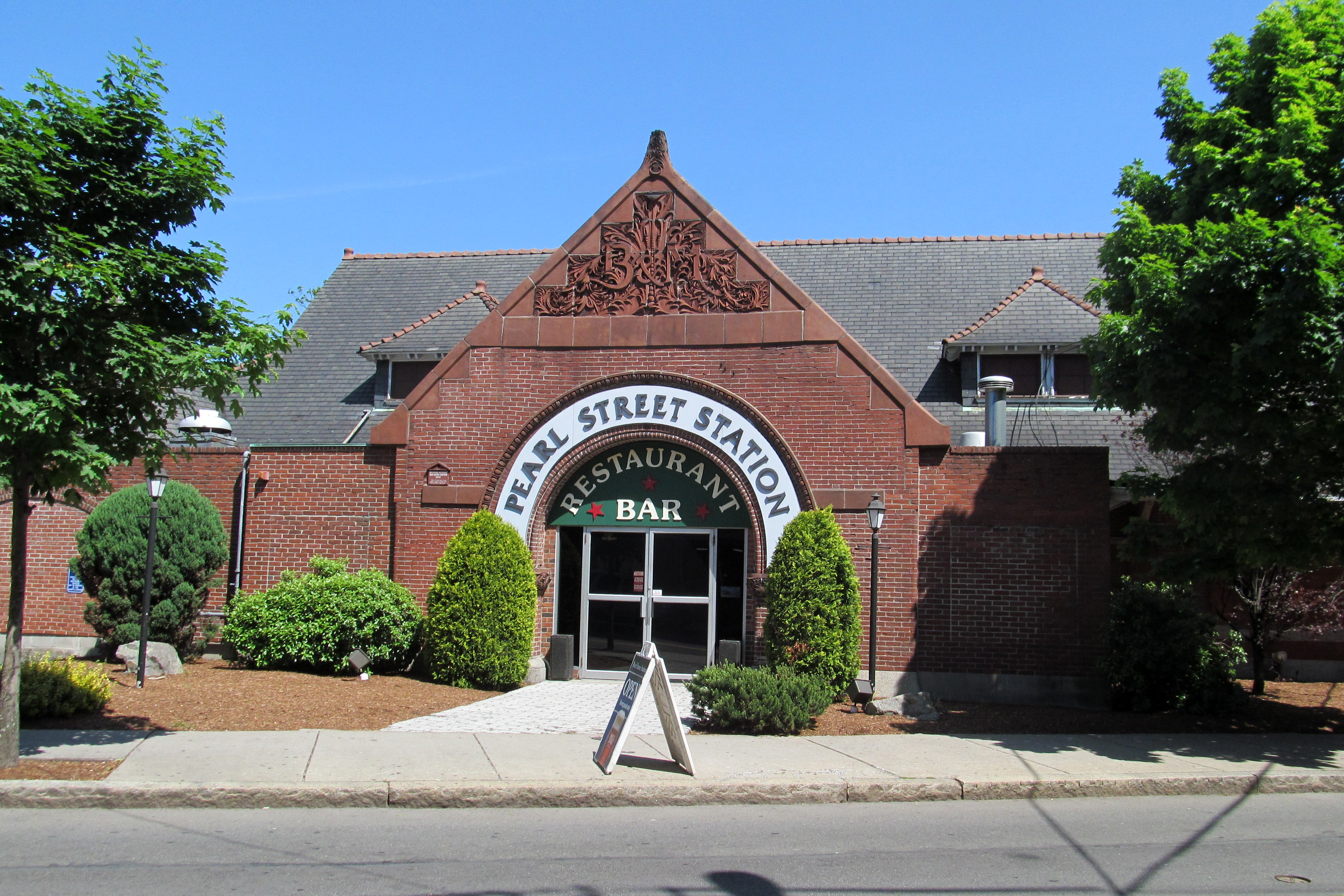 The former Pearl Street station, now a restaurant, in May 2012